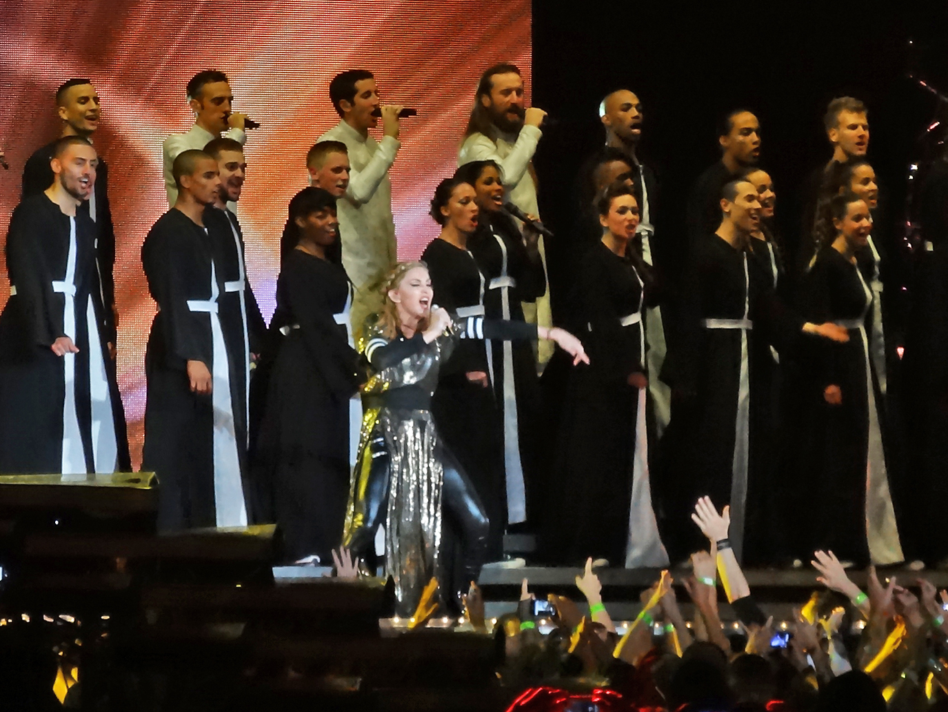 Madonna plays Yankee Stadium on 8 September 2012